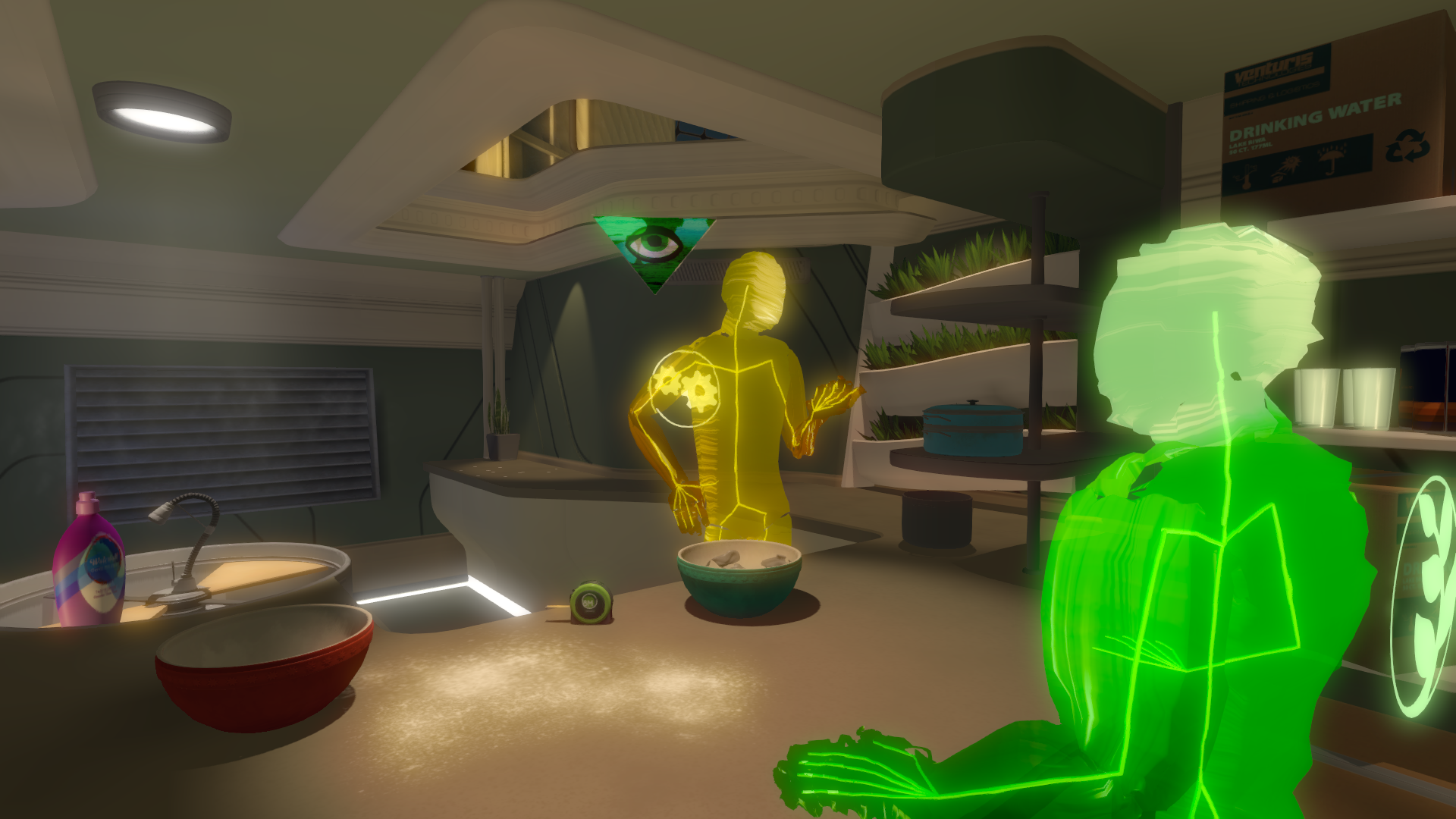 Tacoma screenshot of gameplay